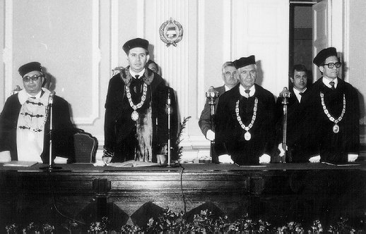 Managings of University of JATE, Szeged, 1984